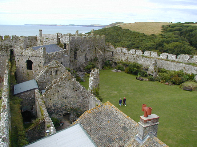 Manorbier Castle